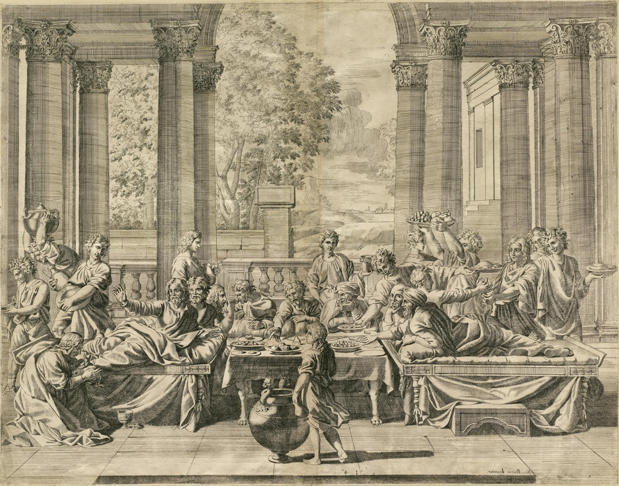 Jean Dughet (brother-in-law of Nicolas Poussin): Sacrament of penance, engraving after Poussin's destroyed painting from his first series The Seven Sacraments, here reversed (according to the original).